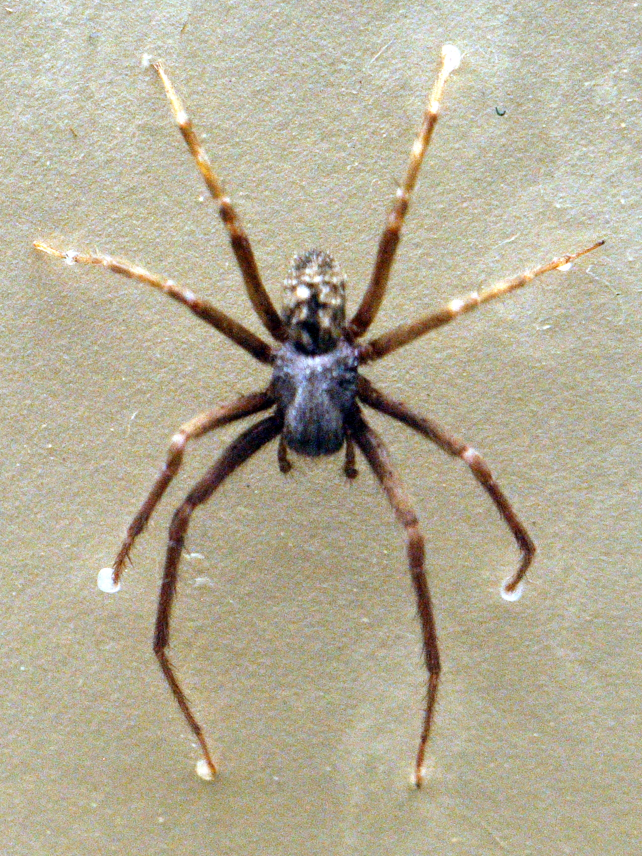 Specimen in the Australian Museum spider display.